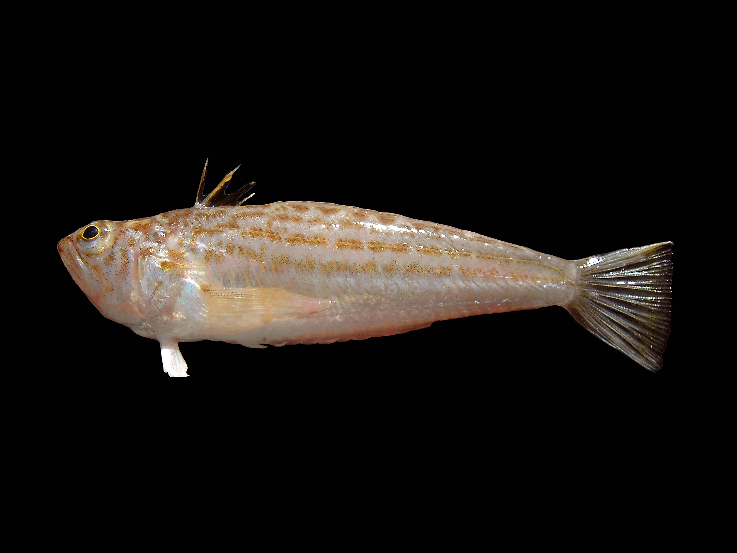 Lesser weever from the Belgian Continental Shelf